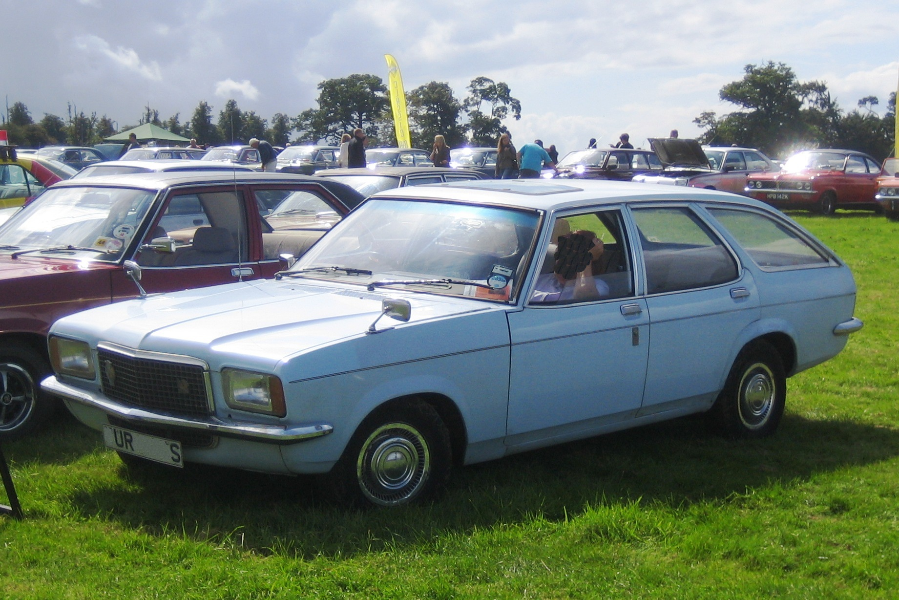 Vauxhall VX2300 Estate in a field in Hertfordshire. The Vauxhall VX1800 & VX2300 models replaced the Vauxhall Victor FE Series in 1976.